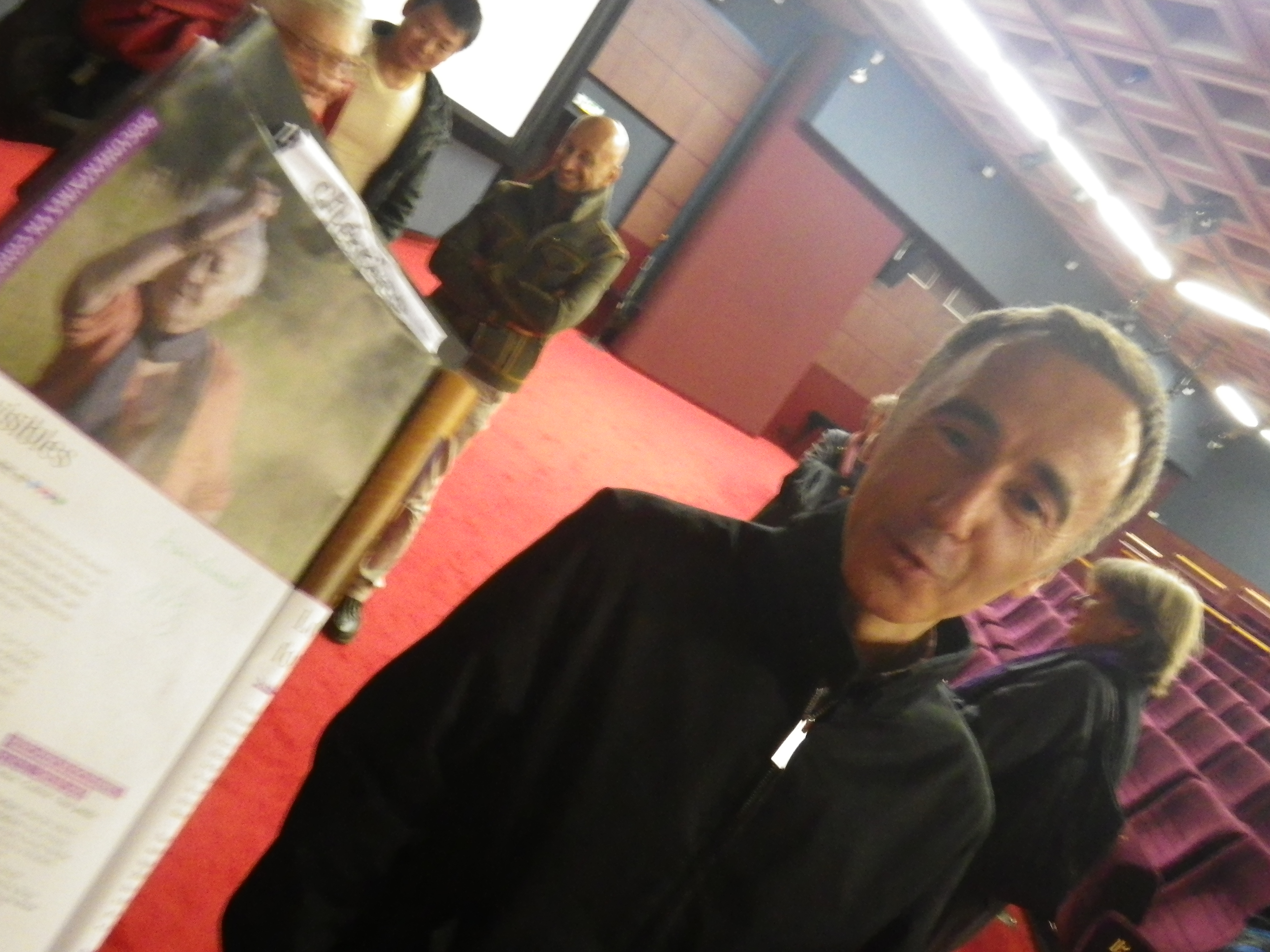 18th Chéries-Chéris Festival Film, Forum des Images, October 2012, Paris, France.